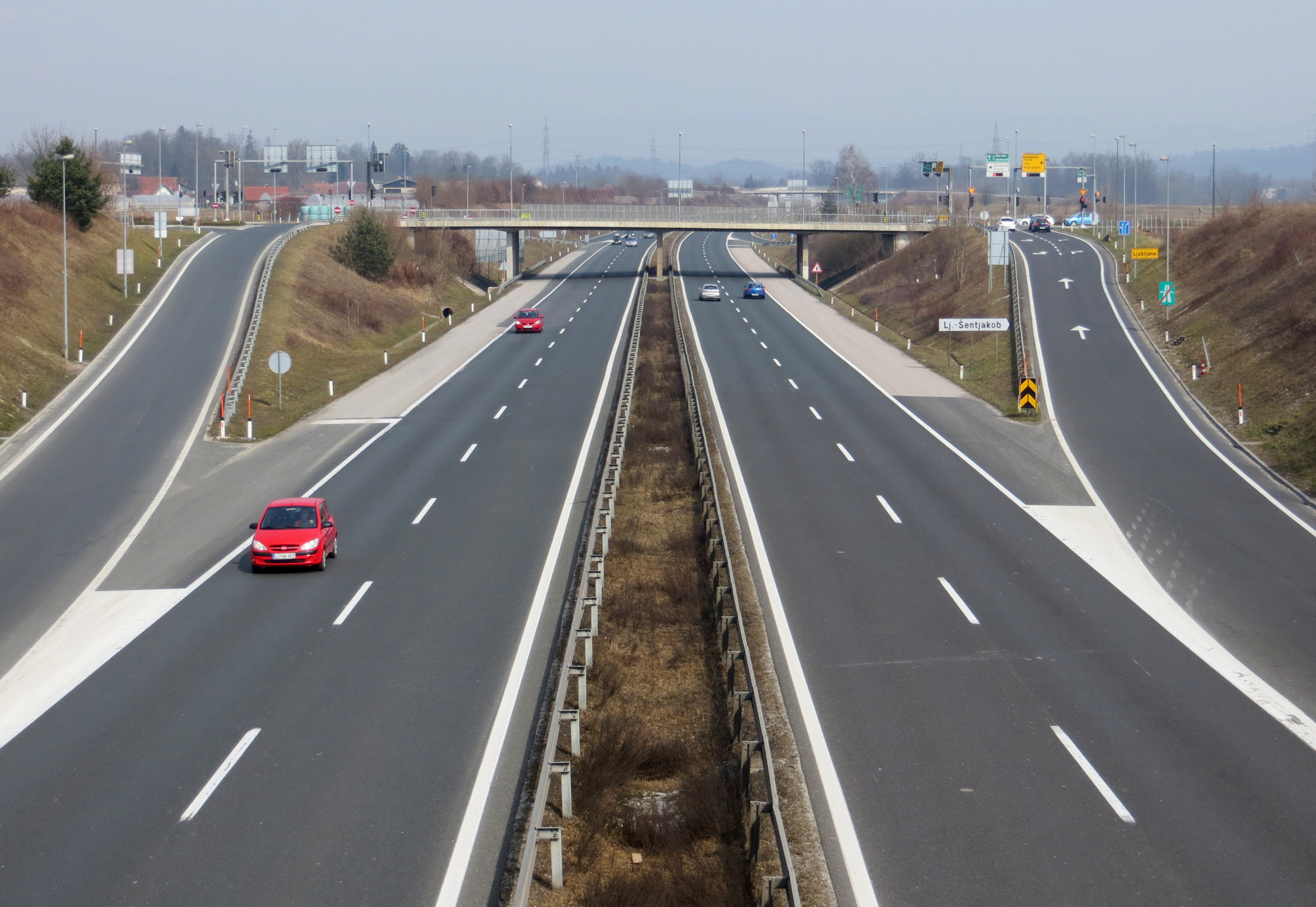 A1 Freeway at Šentjakob ob Savi, City Municipality of Ljubljana, Slovenia